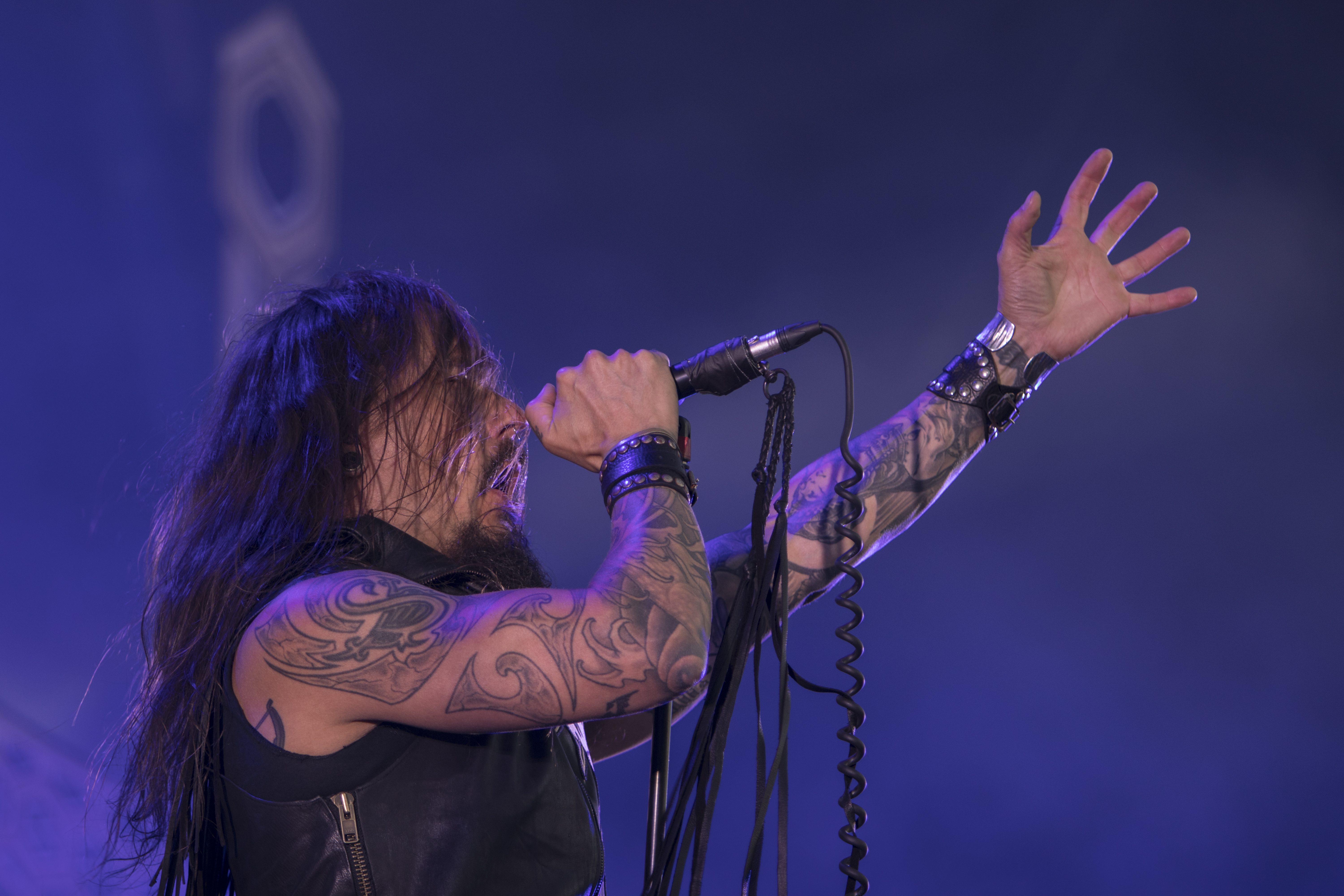 Amorphis at Tuska Open Air Metal Festival 2019 in Helsinki, Finland (Kalasatama)